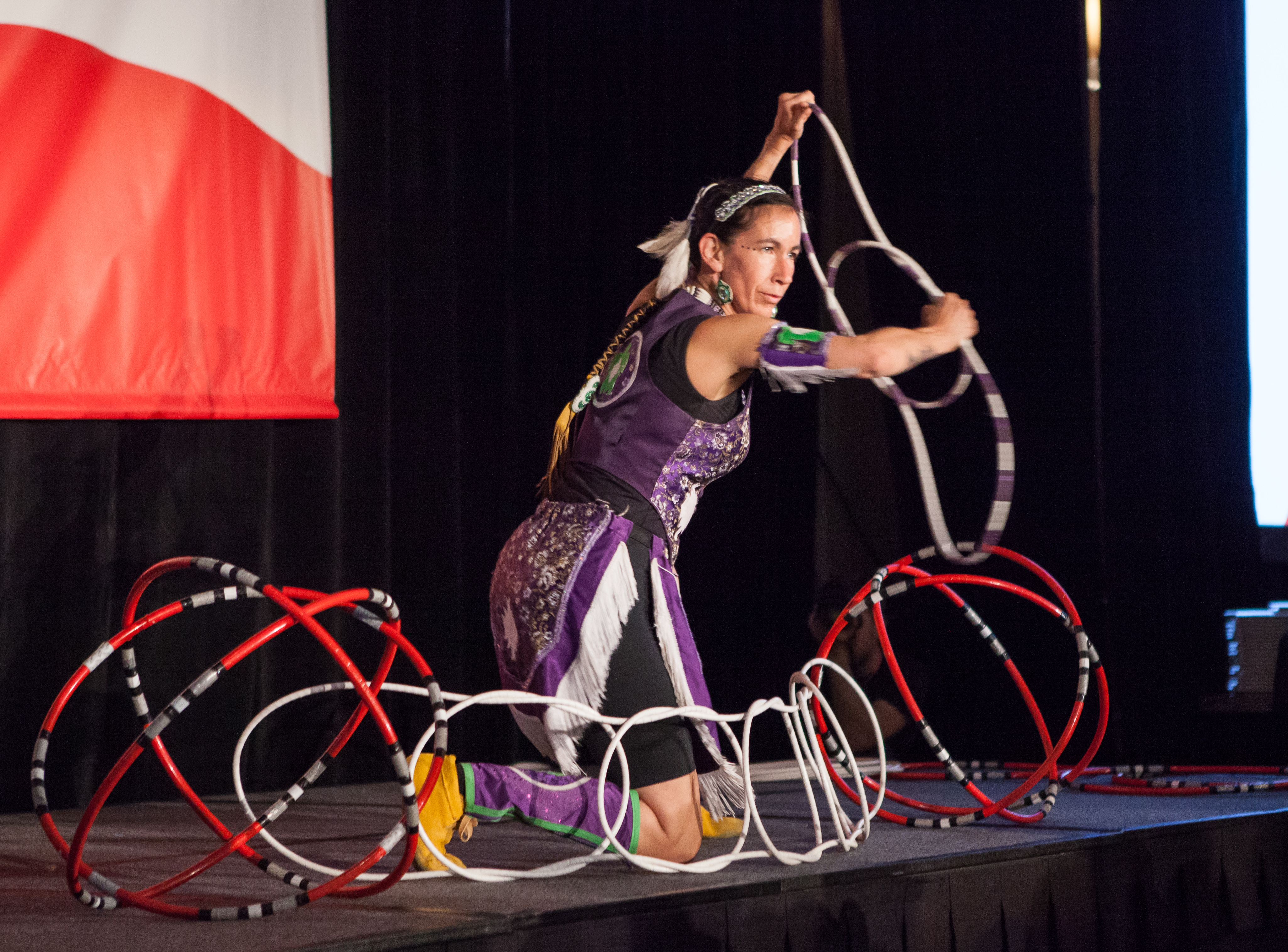 A dancer performs at the welcome reception for Wikimania 2017.